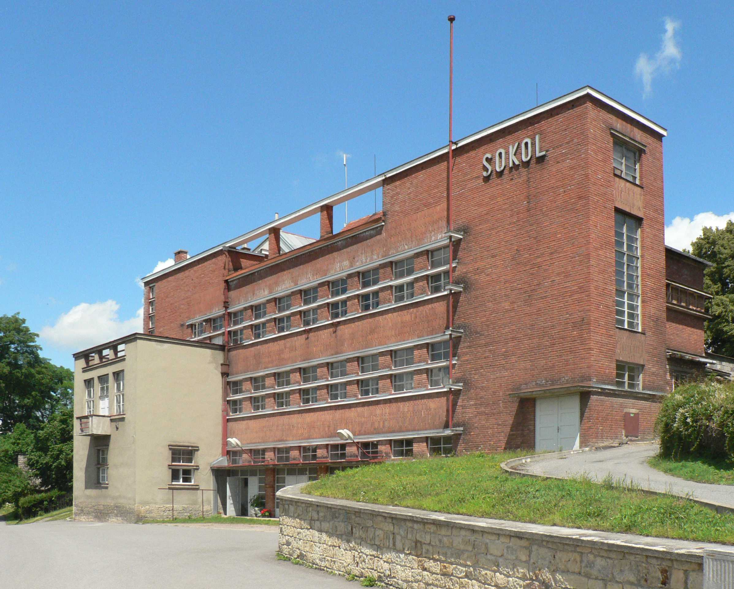 Gym building by Vojtěch Vanický in Sloupnice.